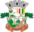 Coats of arms of the city of Carlos Gomes, Rio Grande do Sul, Brazil.